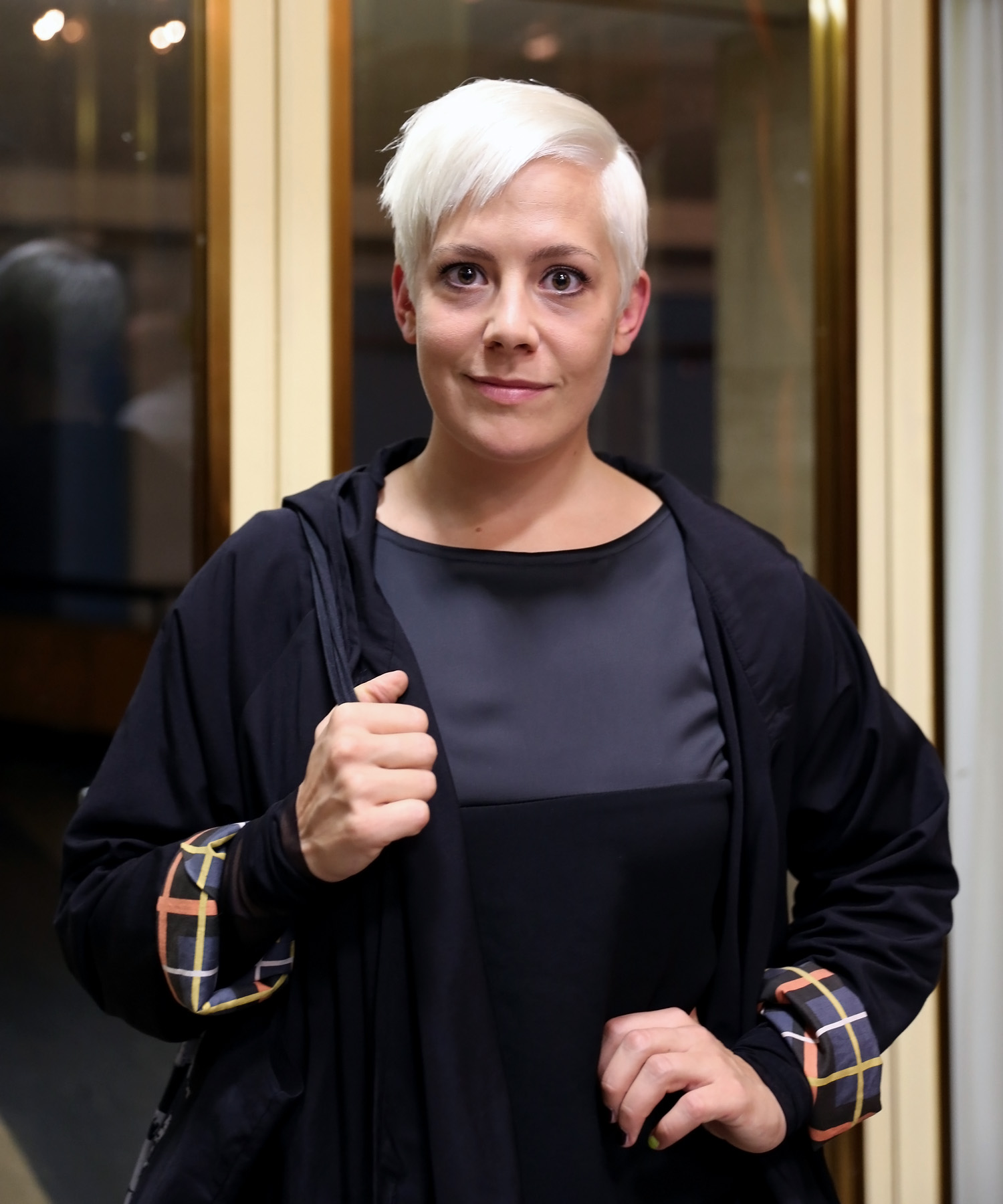 Katharina Mückstein at the Viennese premiere of her film Talea at Gartenbaukino.